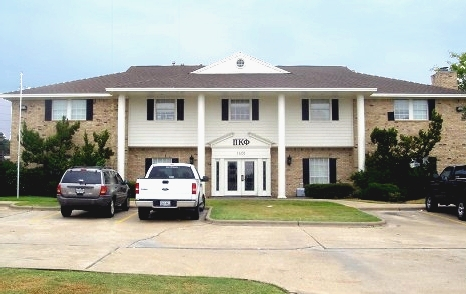 Image of Delta Omega house at Texas A&M